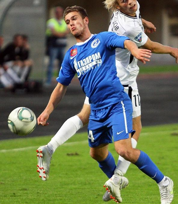 Danil Klenkin with FC Gazovik Orenburg.